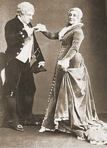 Richard Temple as Sir Marmaduke and Mrs. Howard Paul as Lady Sangazure in The Sorceror, 1877.